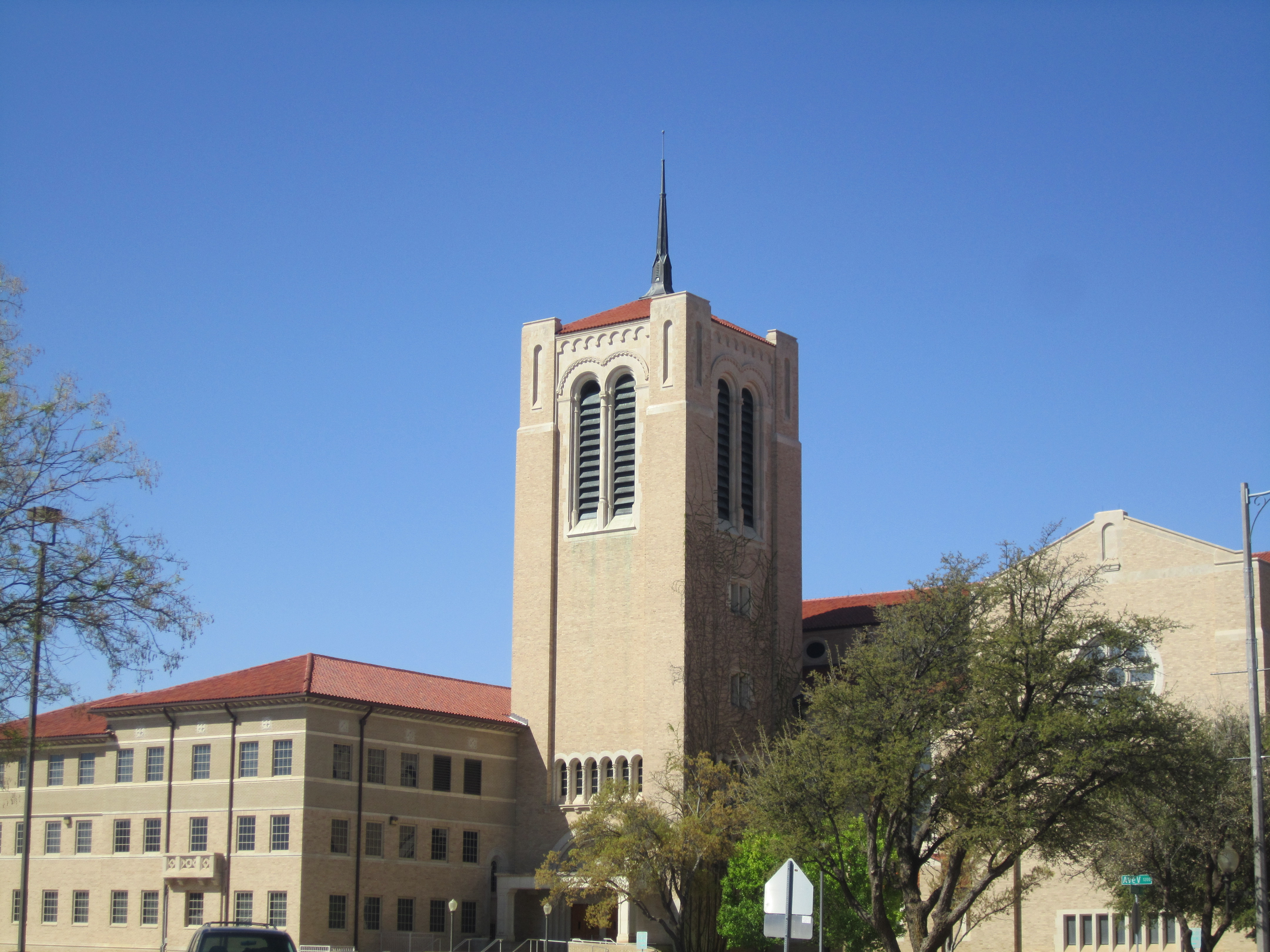 The First Baptist Church on Broadway in Lubbock, Texas. I took photo with Canon camera in Lubbock, TX.